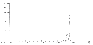 Capillary Electrophoregram